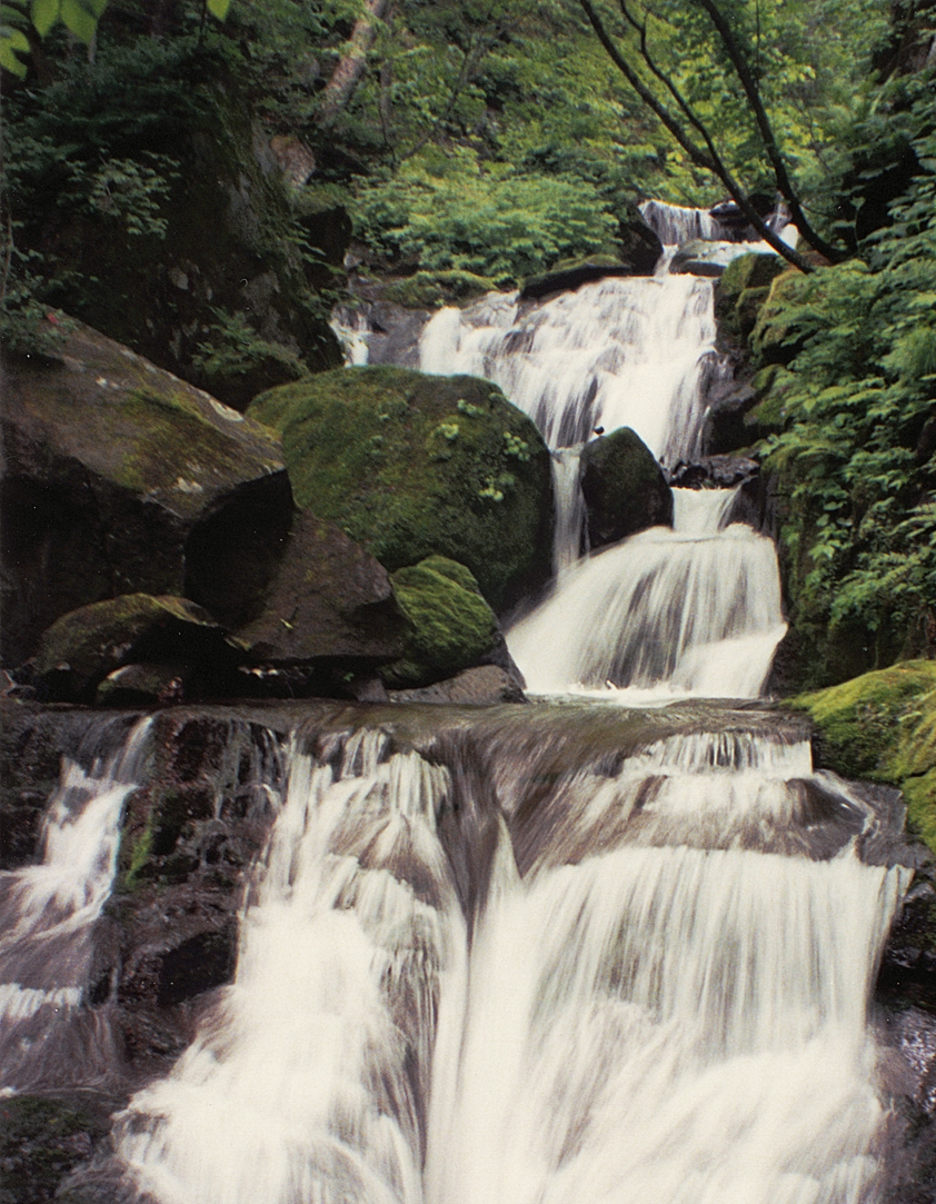 Waterfall on the Oirase River, Aomori Prefecture, Japan